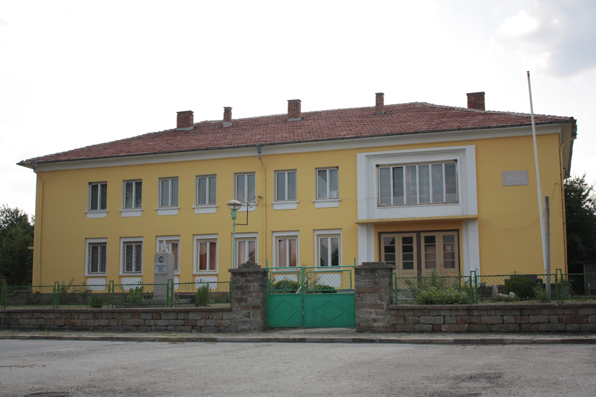 Chitalishte (Culture club) in Malki Varshets, Bulgaria